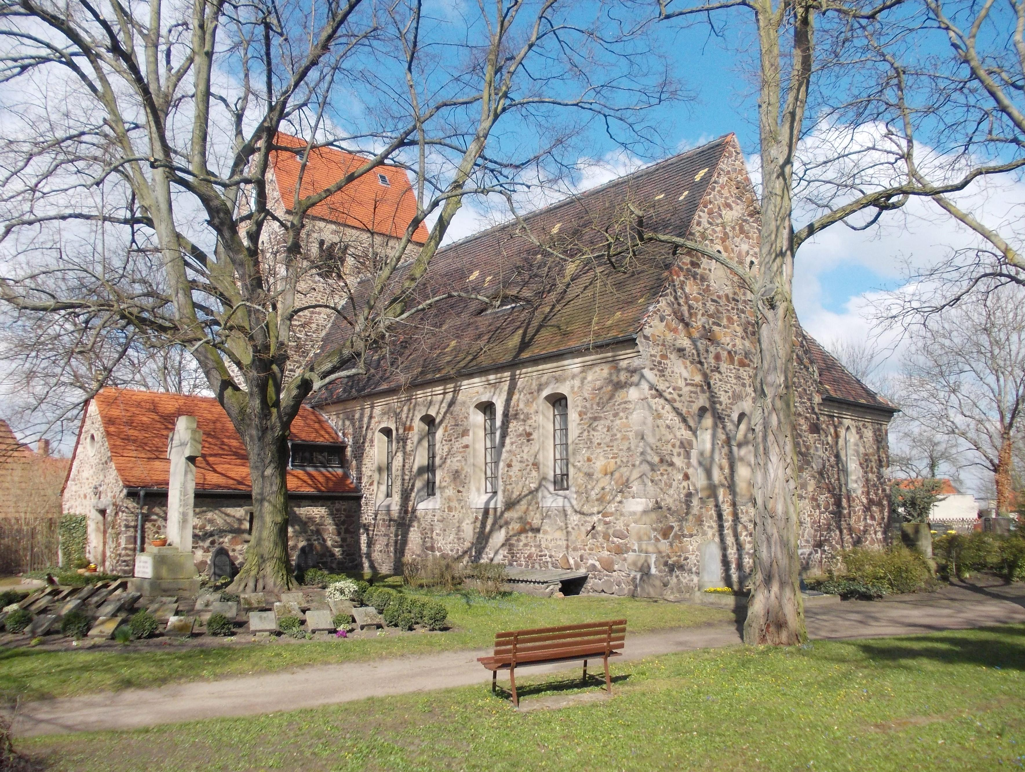 Saints George and Elisabeth Church in Oppin (Landsberg, district: Saalekreis, Saxony-Anhalt)